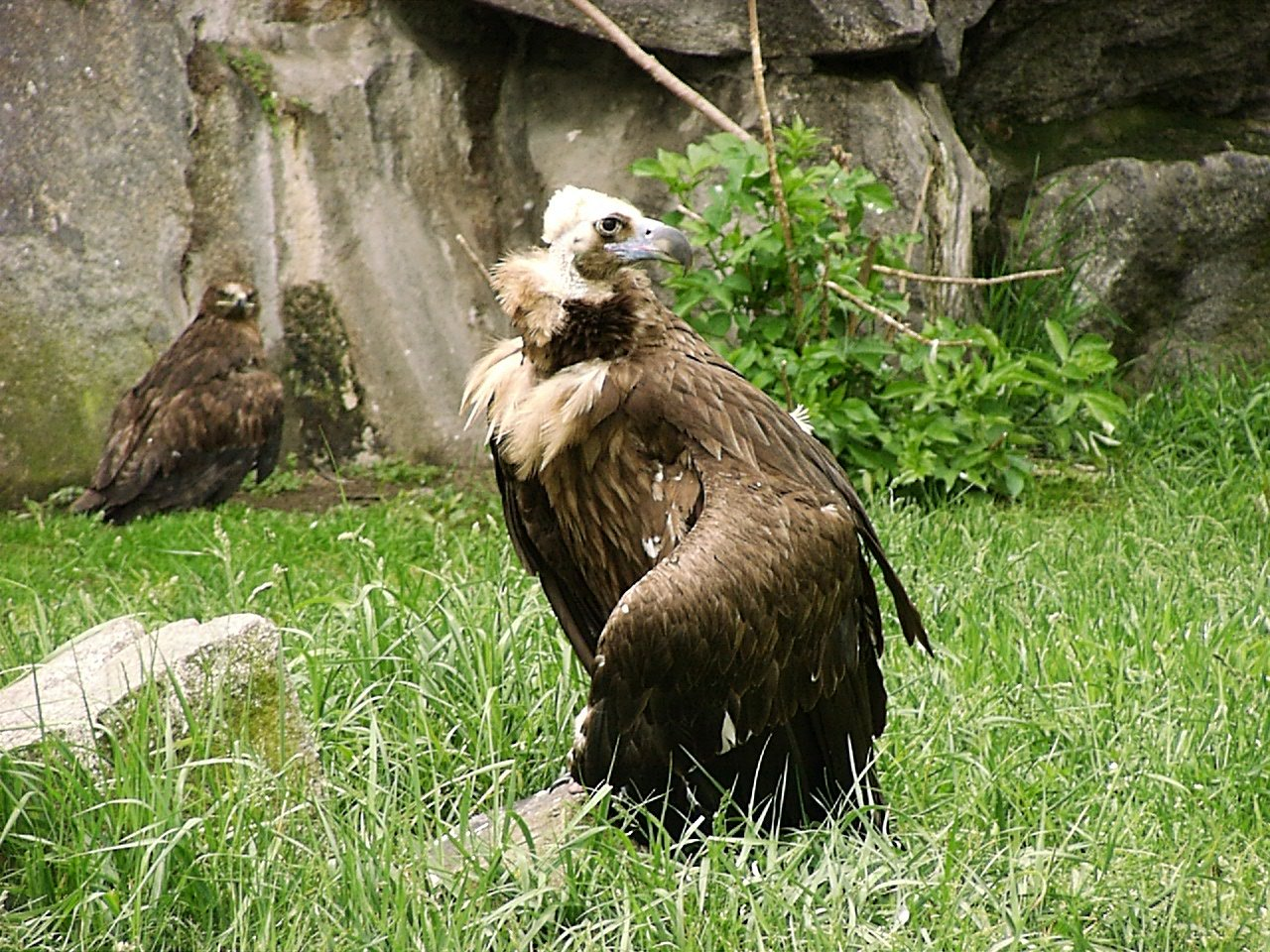 Eurasian Black Vulture in zoo Tierpark Friedrichsfelde, Berlin, Germany. 22 May 2005. Public Domain.